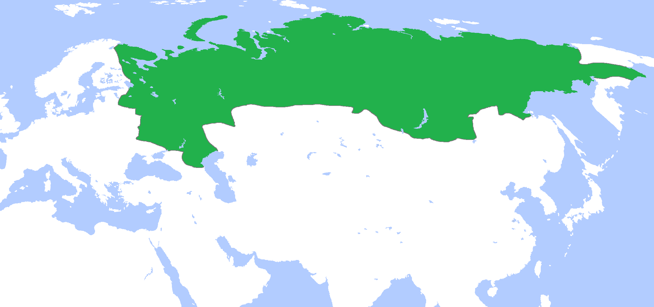 Locator map of Russia, c. 1700. (Partially based on Atlas of World History (2007) - The World 1600-1700, map)